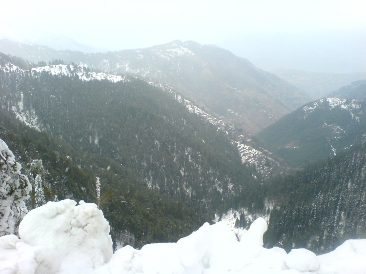 Murree-Rawalpindi